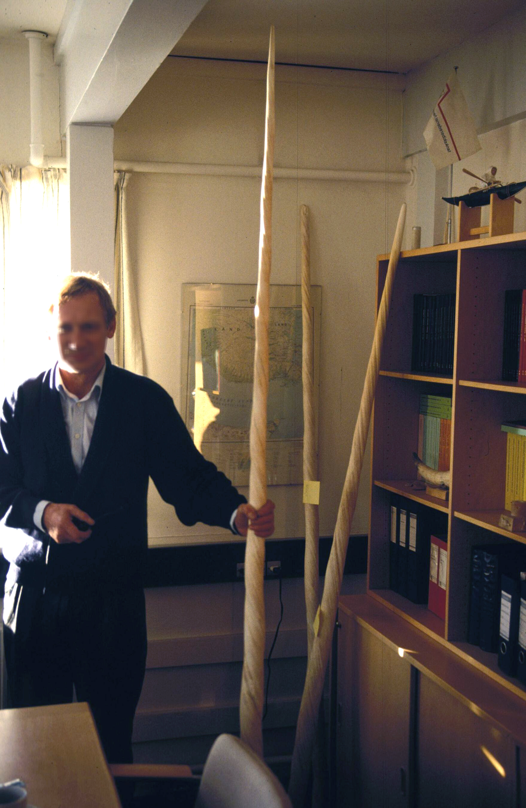 Teeth of narwhale, presented in the administration of Ittoqqortoormiit (Scoresby Sund), east Greenland